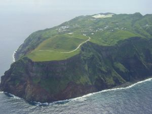 Aerial scene of Aogashima Island, Izu Islands, Japan